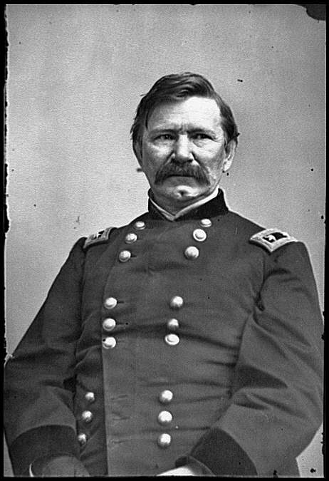 Title: Portrait of Maj. Gen. Robert C. Schenck, officer of the Federal Army Abstract: Selected Civil War photographs, 1861-1865 (Library of Congress) Physical description: 1 negative